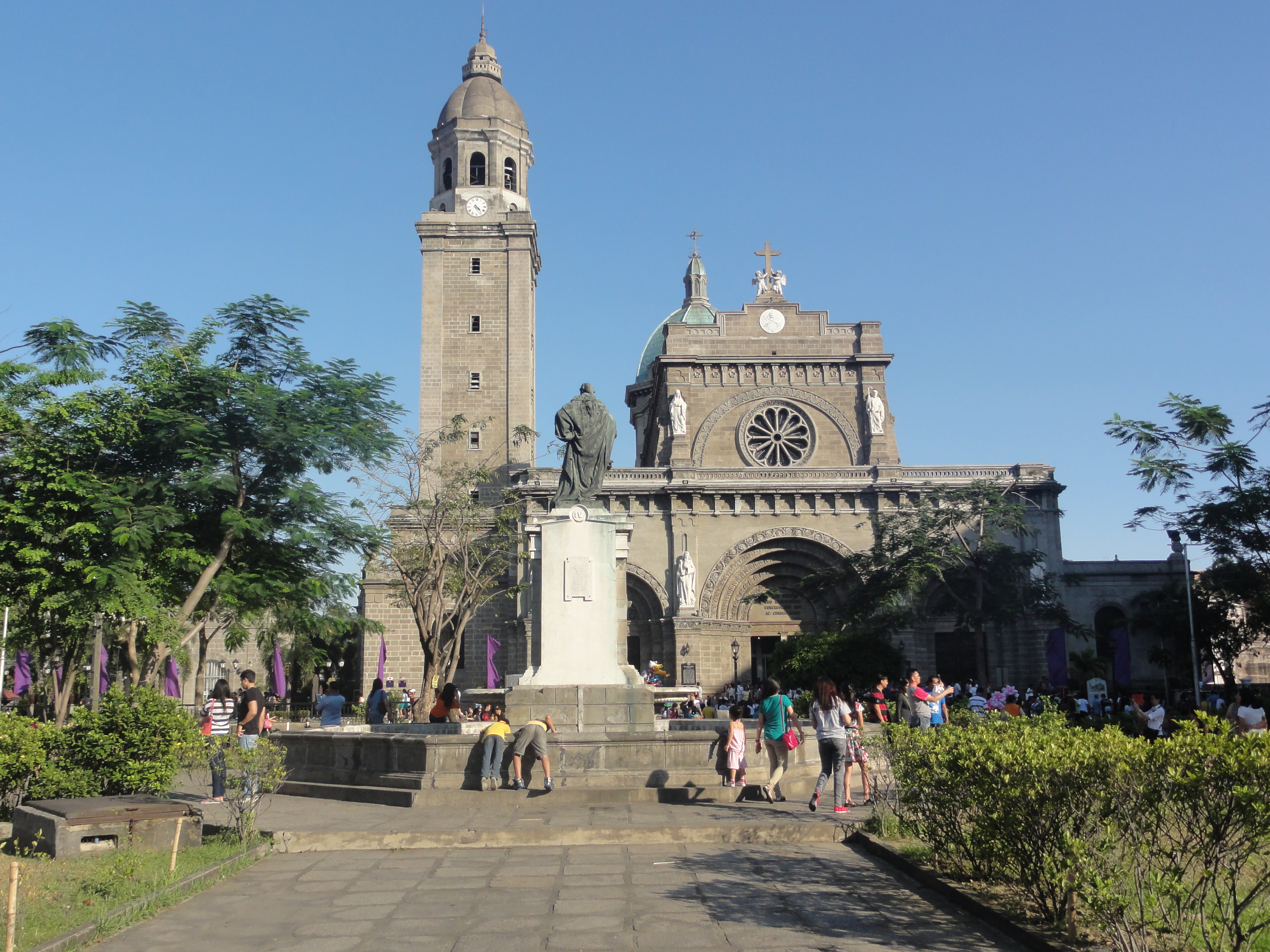 Front view of The Cathedral in Intramuros, Manila as of April 2015.